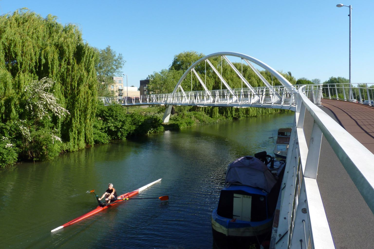 Riverside Bridge in Cambridge, England.